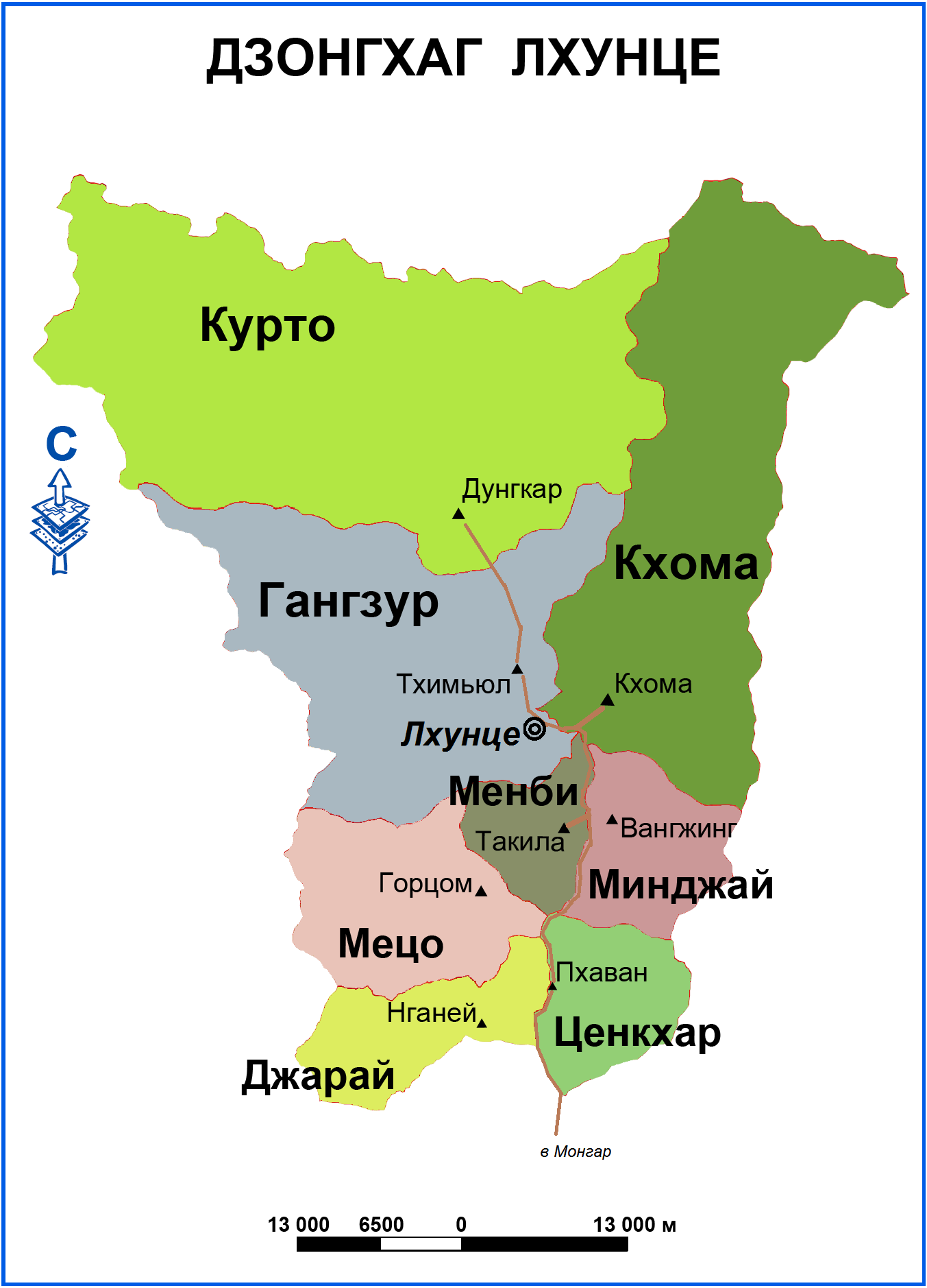 Improved the file File:Lhuntse dzonghag (ru).png, added roads and cities